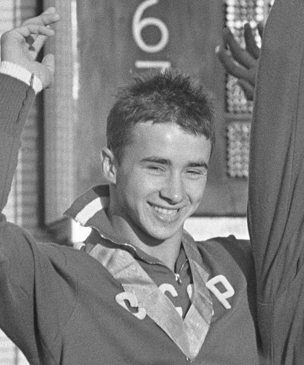 Leonid Ilyichov, European champion in the 4 x 100 m medley